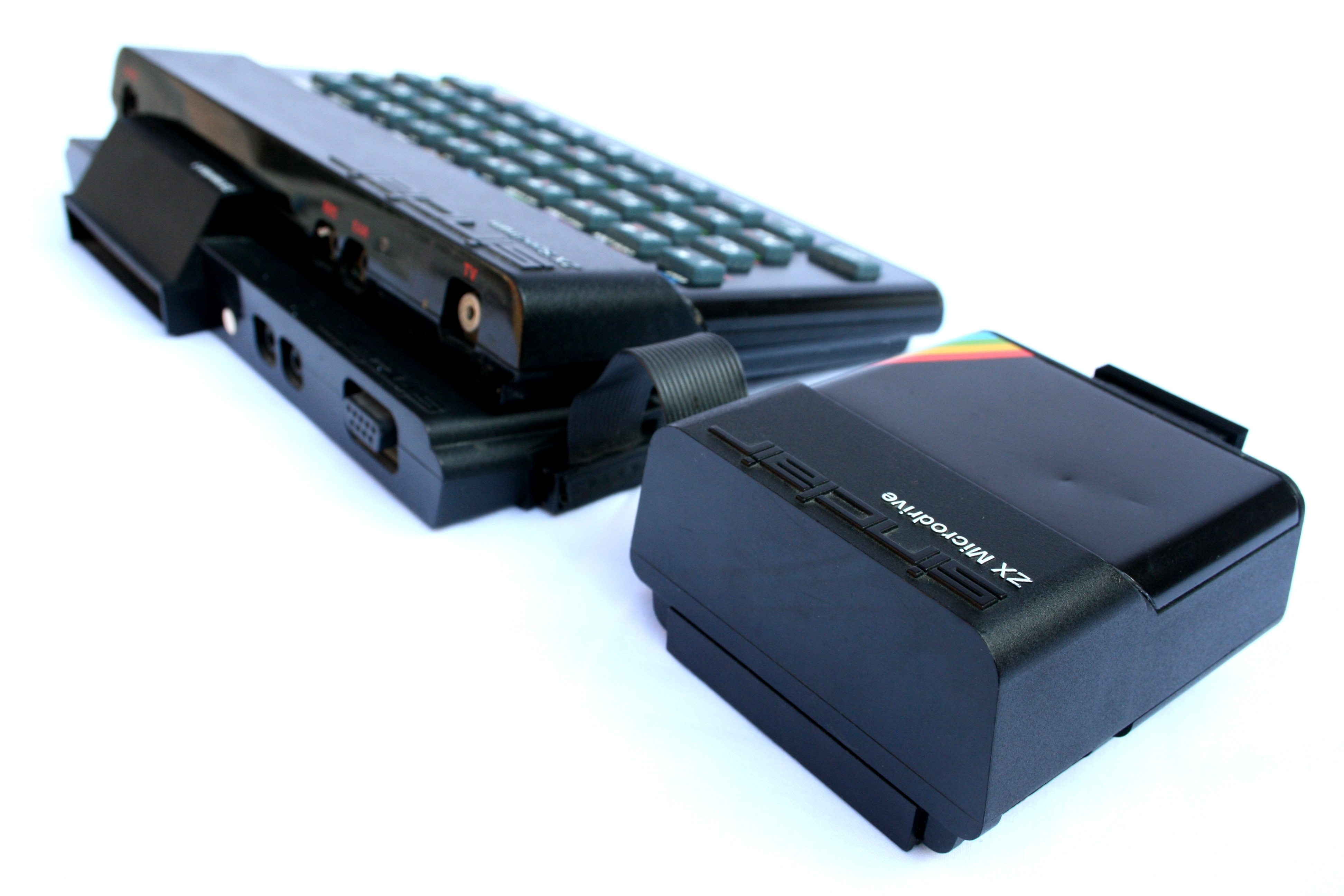 ZX Spectrum with Interface 1 and Microdrive